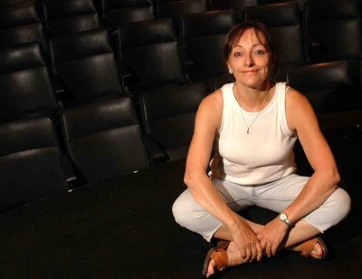 Monica is photographed awaiting rehearsal of a play